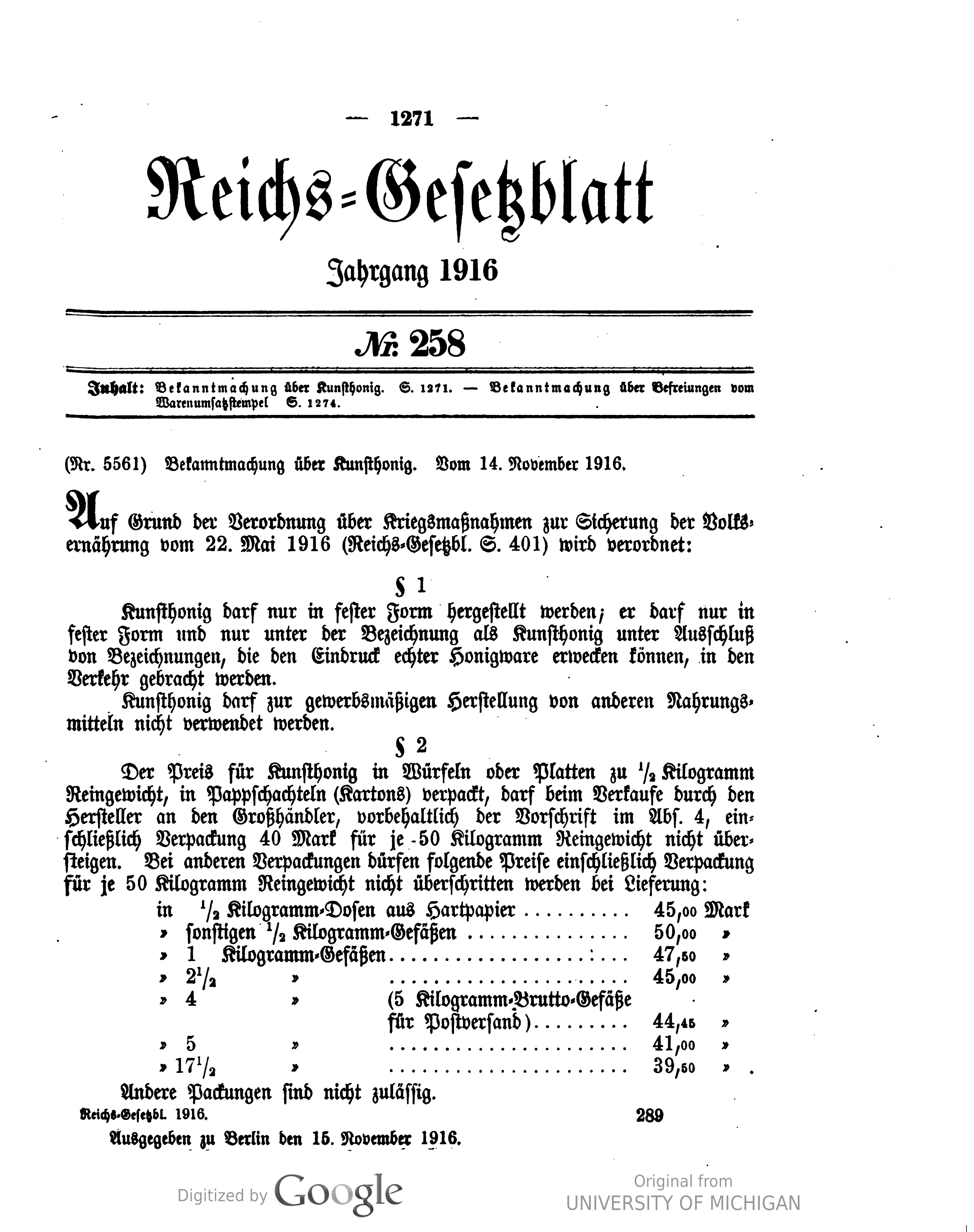 Scan from the Imperial Law Gazette of Germany, 1916